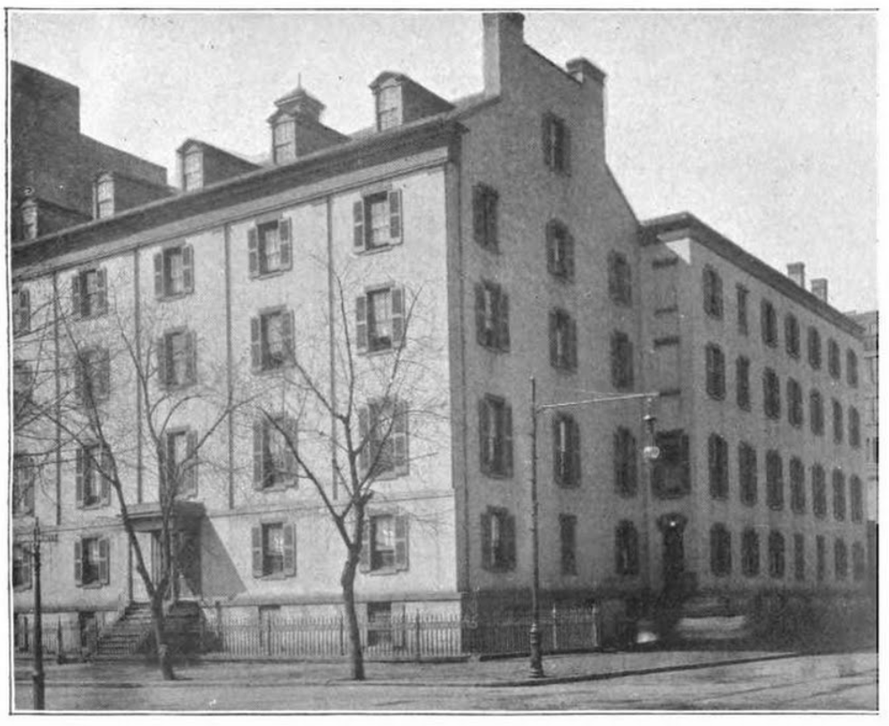 Photograph of St. Vincent's Female Orphan Asylum on the southwest corner of 10th and G Streets in Washington, D.C. (1898 or before). Information on this building is available at the Inventory of Catholic Charities of the Archdiocese of Washington.